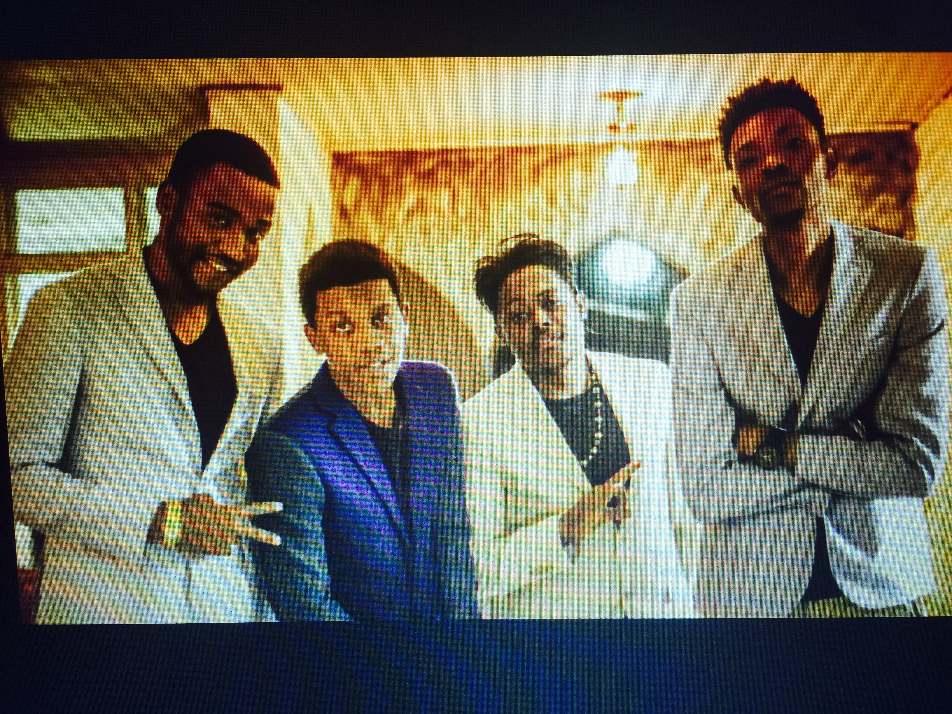 Zone Fam posing for a group photo.